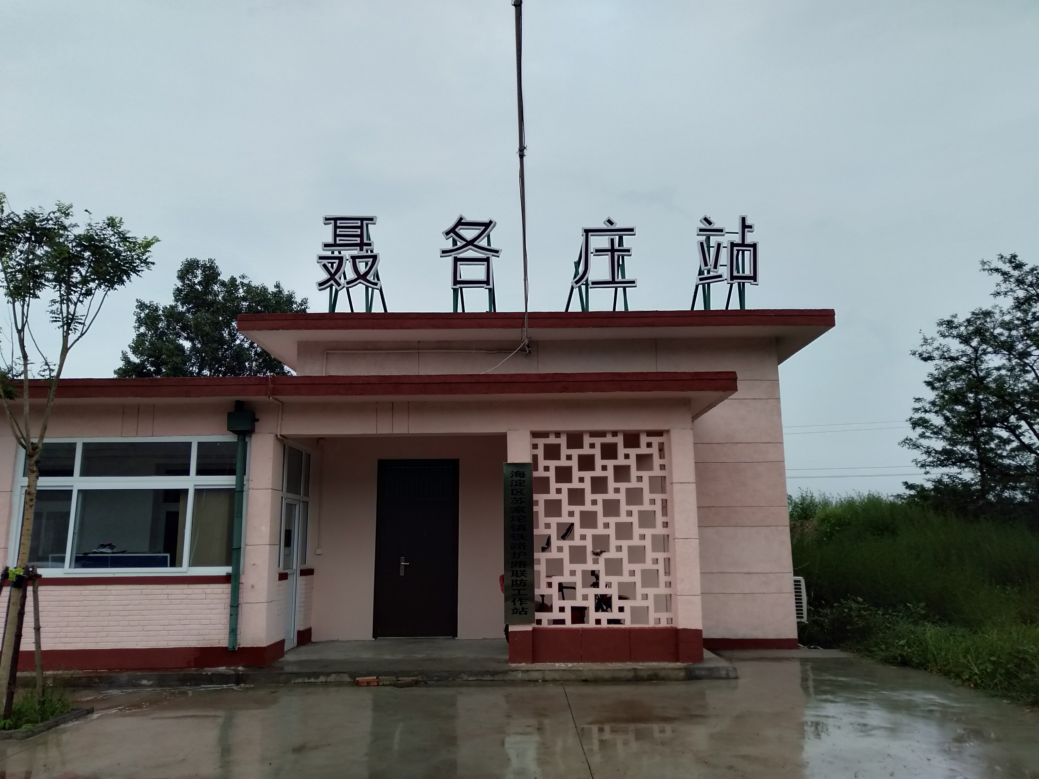 Niegezhuang Railway Station